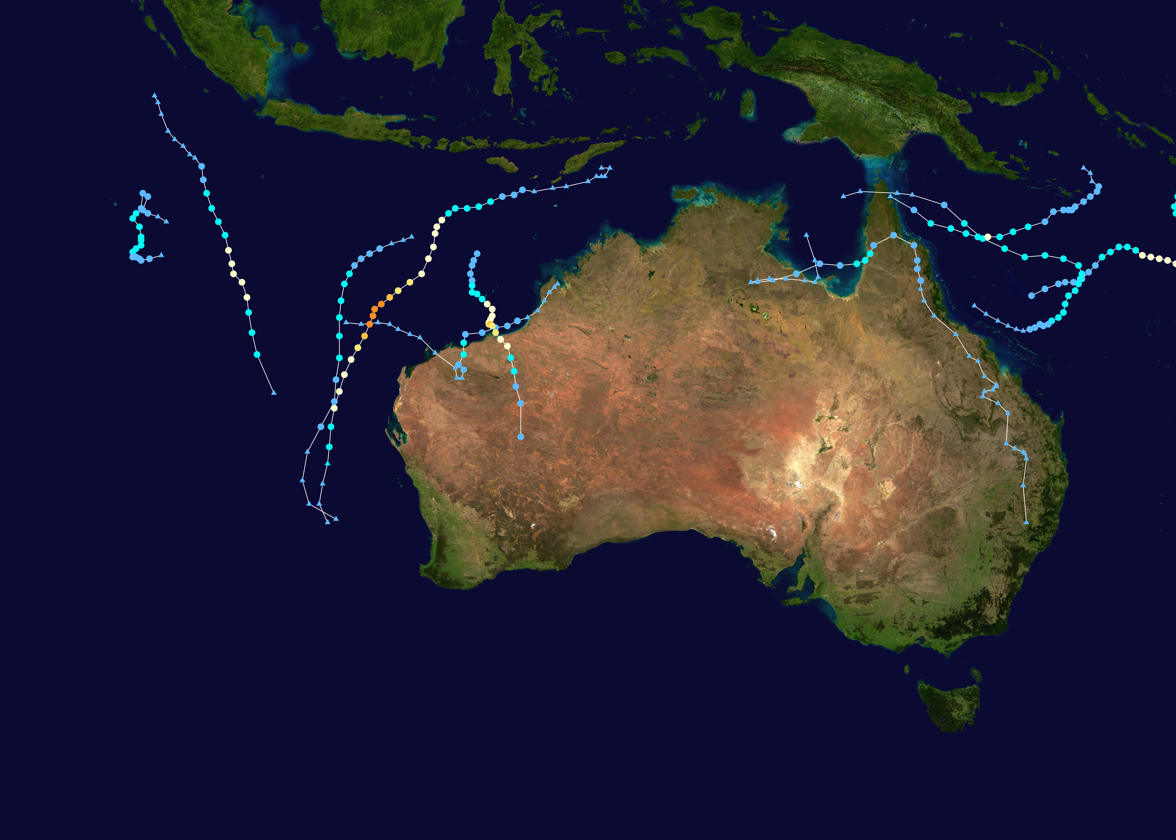 This map shows the tracks of all tropical cyclones in the 2012-13 Australian region cyclone season. The points show the location of each storm at 6-hour intervals. The colour represents the storm's maximum sustained wind speeds as classified in the Saffir-Simpson Hurricane Scale (see below), and the shape of the data points represent the type of the storm. Saffir–Simpson scale Tropical depression≤38 mph≤62 km/h Category 3111–129 mph178–208 km/h Tropical storm39–73 mph63–118 km/h Category 4130–156 mph209–251 km/h Category 174–95 mph119–153 km/h Category 5≥157 mph≥252 km/h Category 296–110 mph154–177 km/h Unknown Storm type Tropical cyclone Subtropical cyclone Extratropical cyclone / Remnant low / Tropical disturbance / Monsoon depression